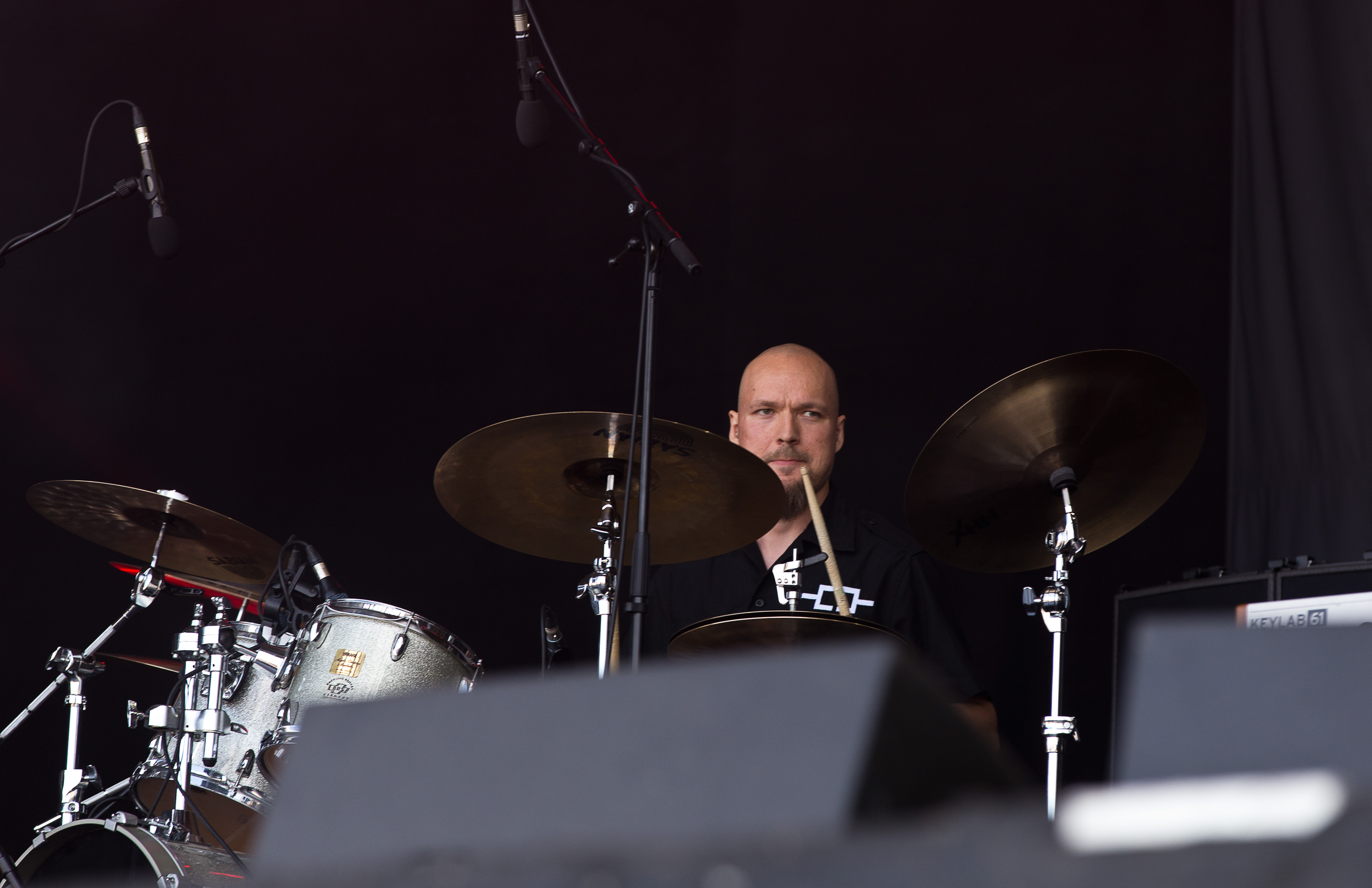 The Finnish melodic death metal band Omnium Gatherum at the Rockharz Open Air 2016 in Ballenstedt/Germany.